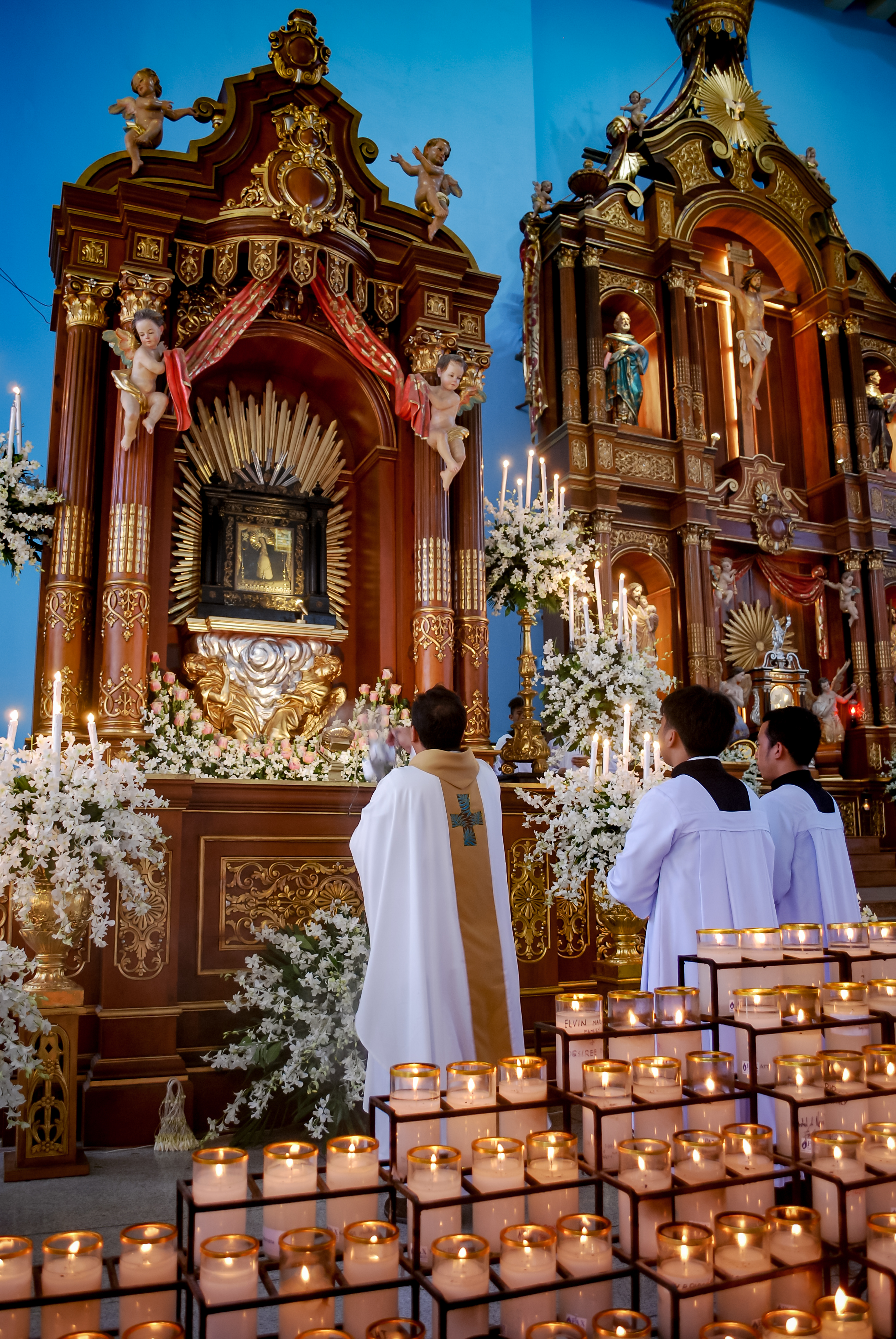 Our Lady of Porta Vaga's retabolo at San Roque Parish Church, Cavite City during her feast day in November By: Cai Camua